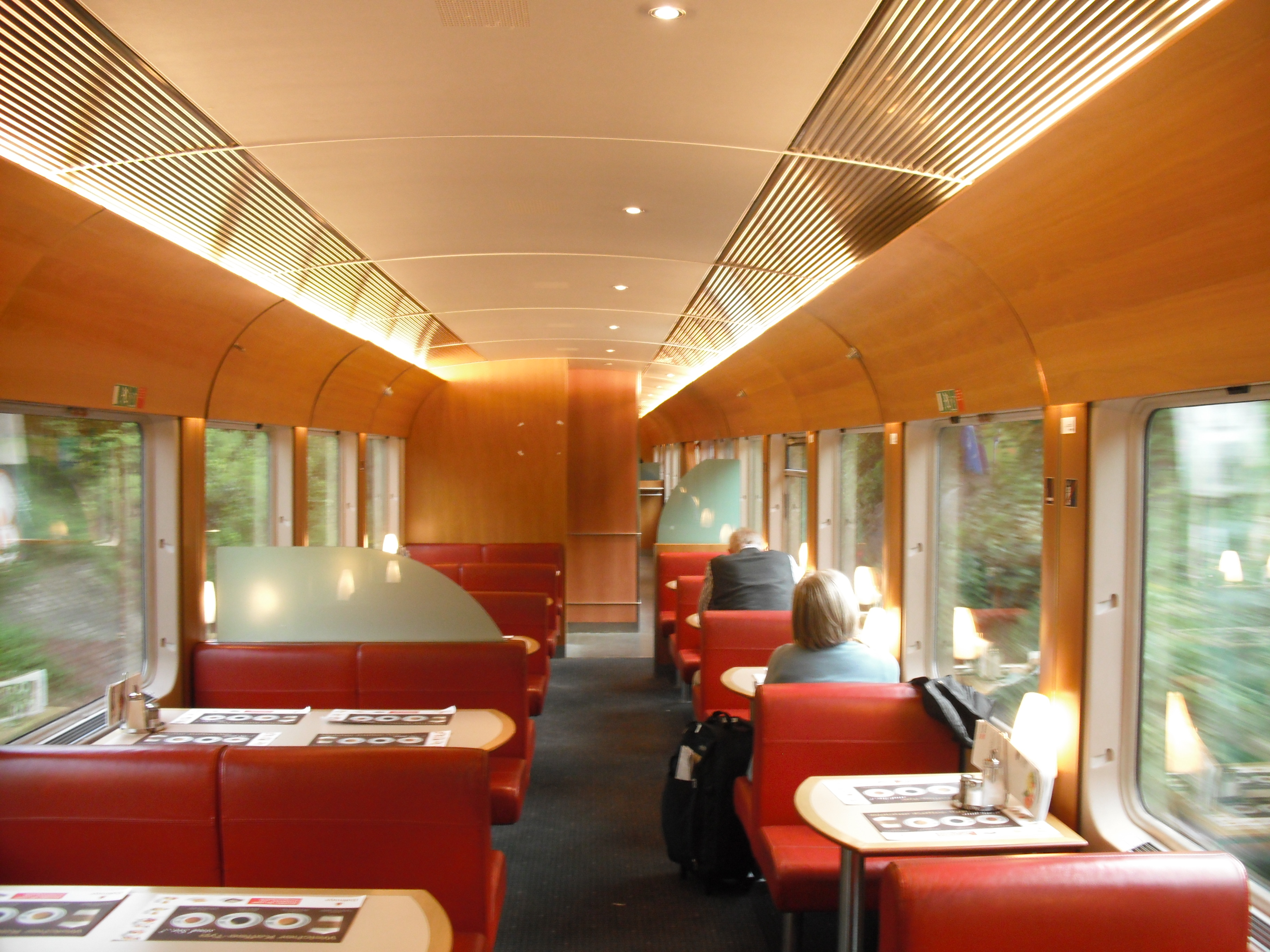 Inside a DB Intercity BordRestaurant